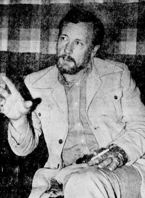 1979 - The Sydney Morning Herald Image